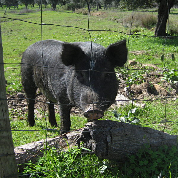 Young black pig being raised naturally in a farm near Montemor-O-Novo, Portugal